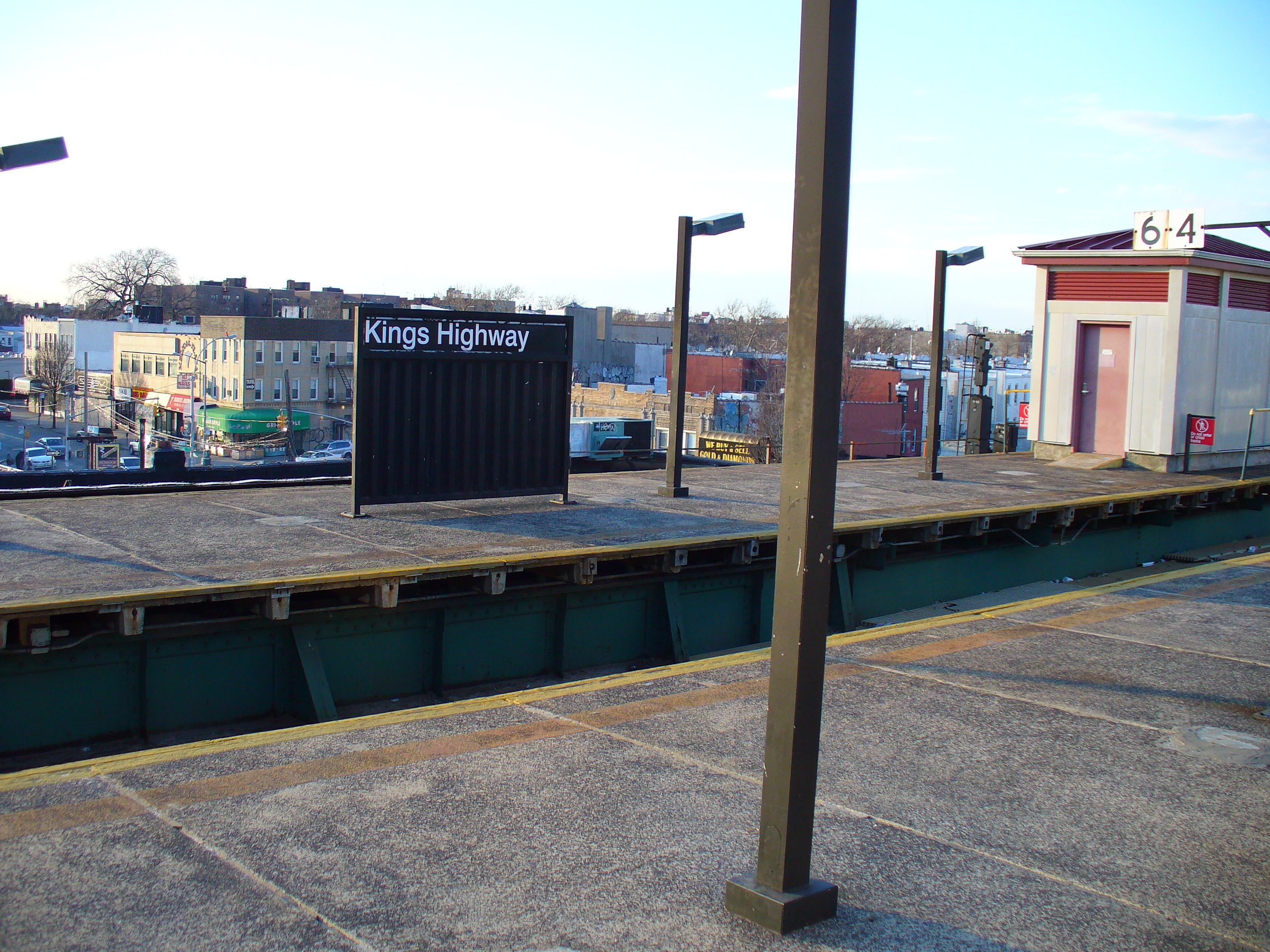 Kings Highway F Line NYC Subway Station by David Shankbone